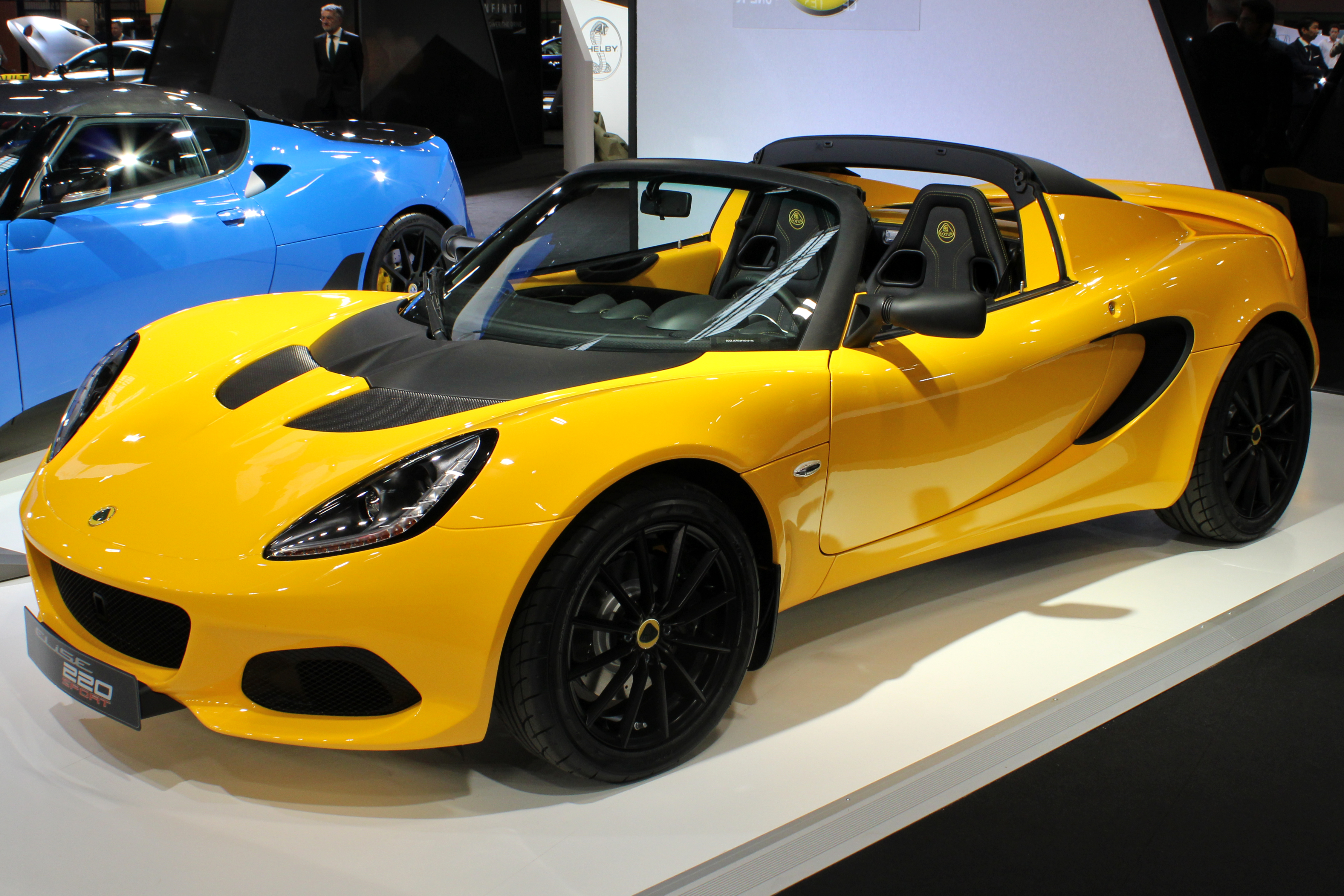 Lotus Elise Sport 220 at Paris Motor Show 2018